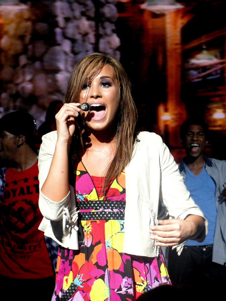 Jonas Brothers Live In Concert and The Cast of Camp Rock 2, September 2nd, 2010.